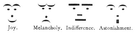 Emoticons printed in 1881 in the U.S. magazine Puck.